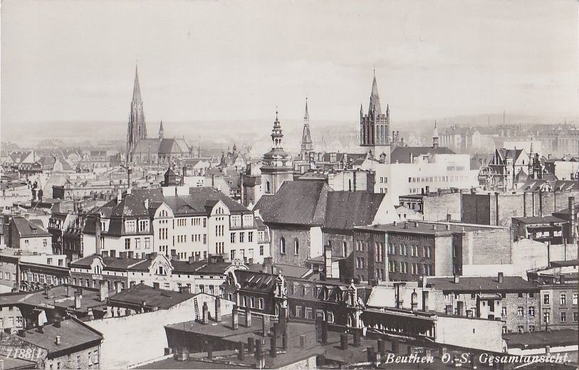 "Beuthen O.-S. Gesamtansicht", view of Beuthen downtown (now Bytom in Poland) seen maybe from Heinitz coal mine (later Rozbark), German postcard published by Geyer Verlag from Breslau (now Wrocław). no 7188/1.